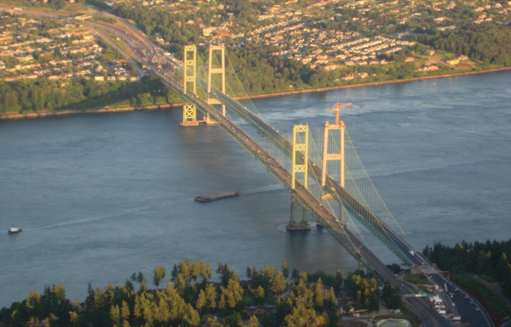 The Tacoma Narrows Bridge at Tacoma in United-States